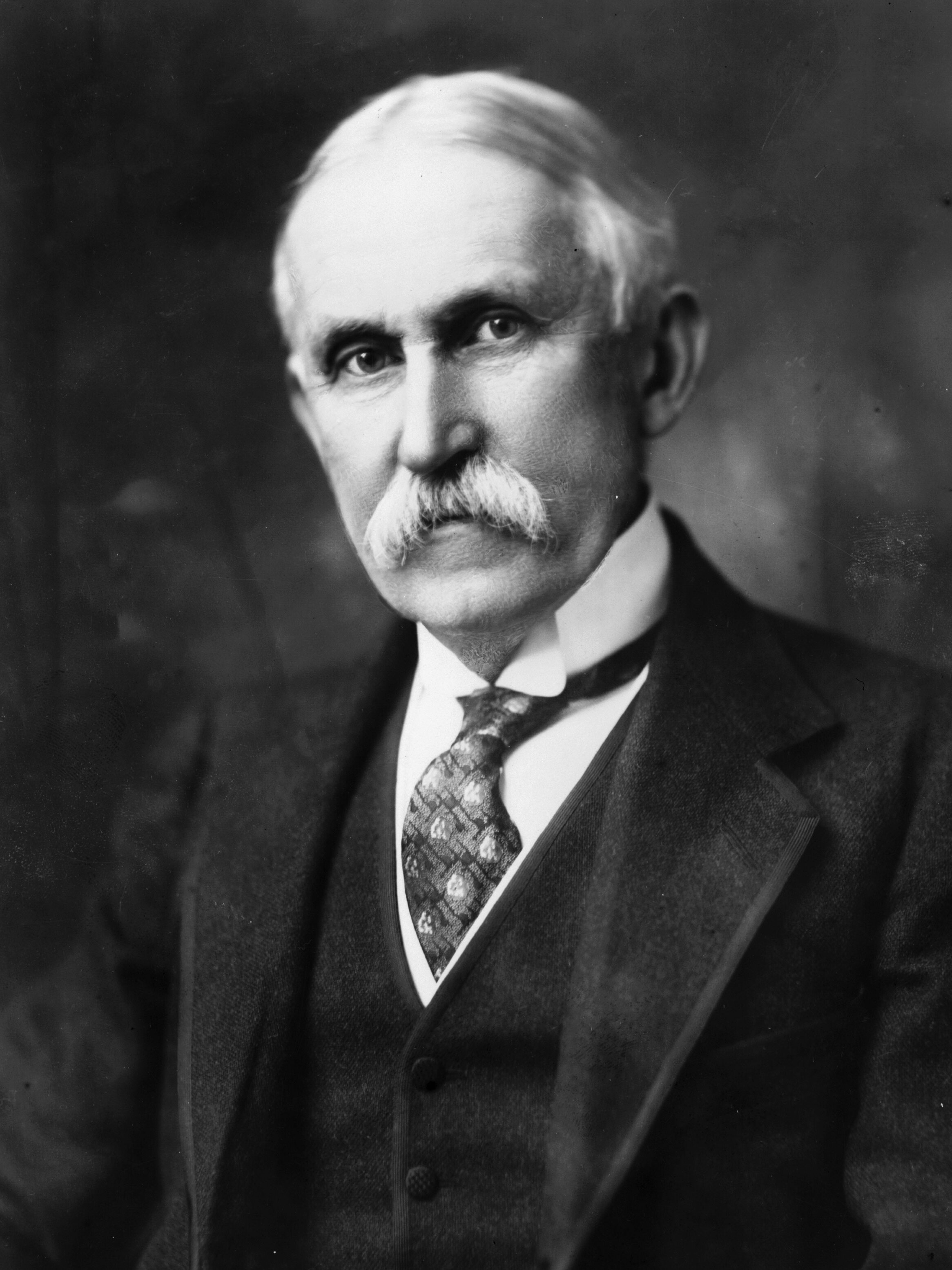 Franklin MacVeagh, formal photo portrait. Secretary of the Treasury of the United States.